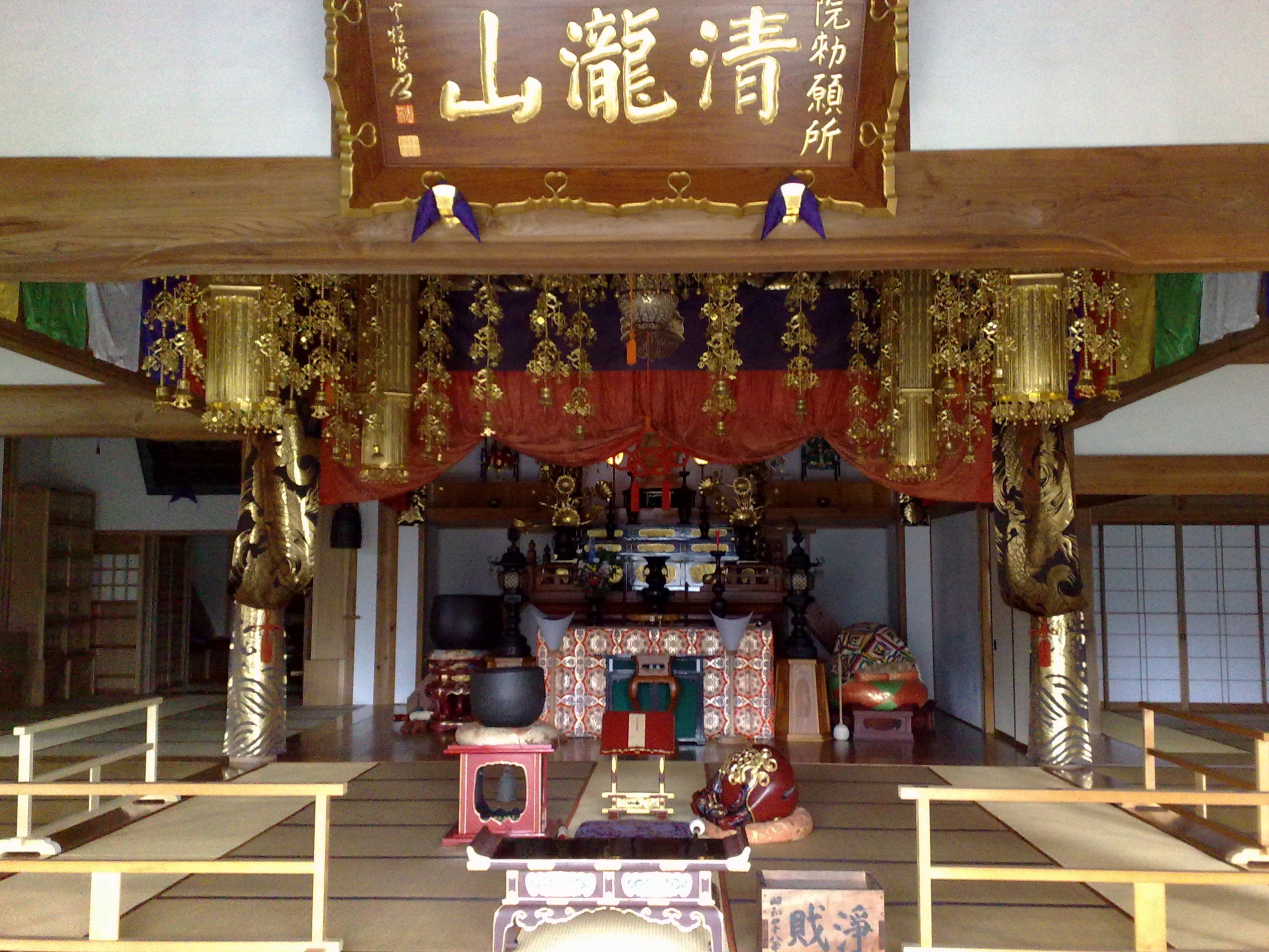 Jōan-ji, a temple in Nagaoka, Niigata Prefecture, Japan